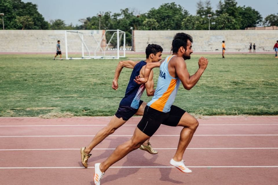 During workout in Nehru stadium